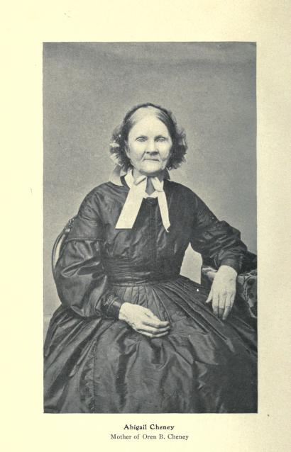 Abigail Cheney, abolitionist from New Hampshire, Free Will Baptist, mother of Oren B. Cheney